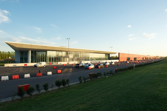 Kilometro rosso Ilab